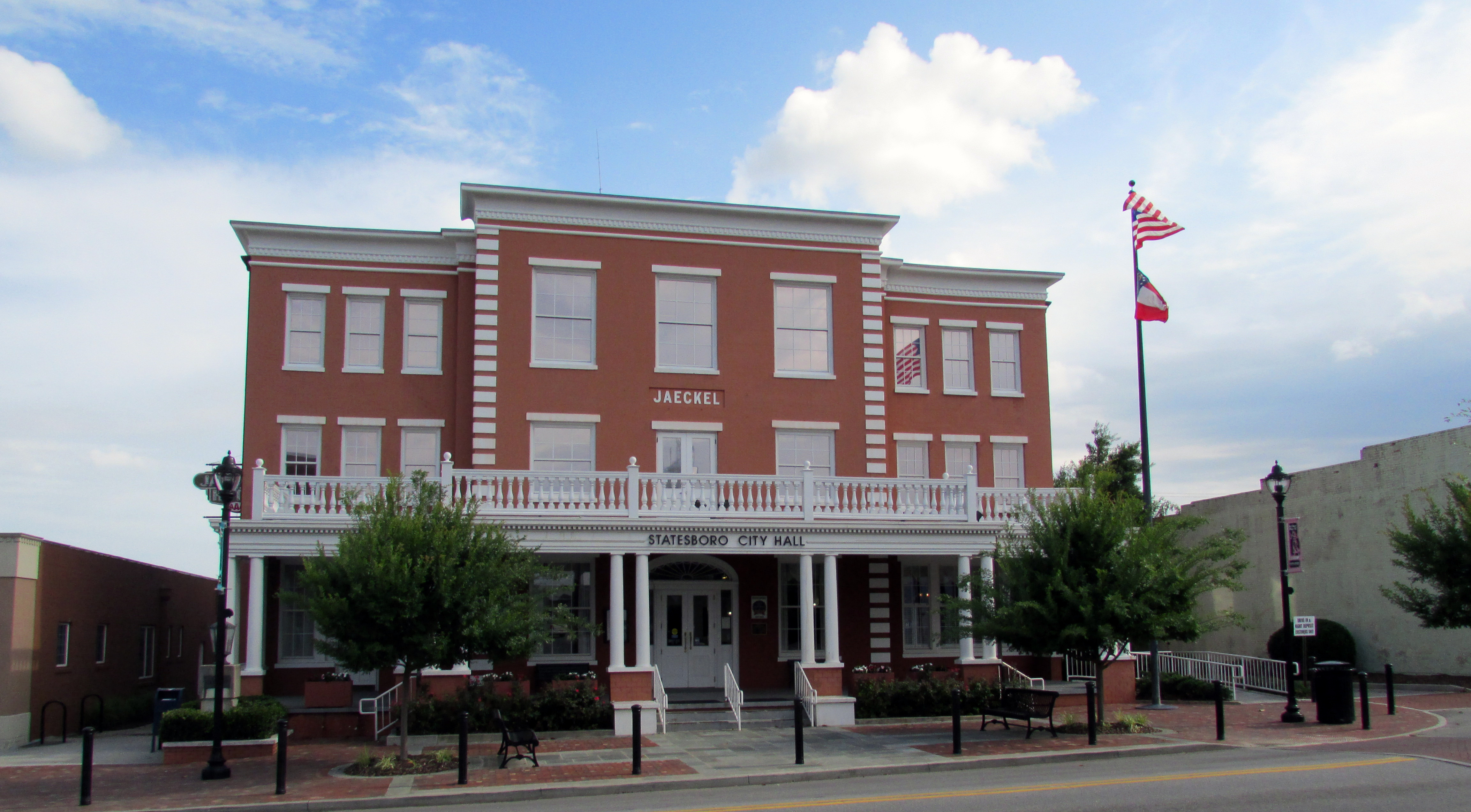 The city hall of Statesboro, Georgia